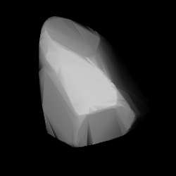 3D convex shape model of 936 Kunigunde, computed using light curve inversion techniques. J. Hanuš, J. Ďurech, M. Brož, B. D. Warner (June 2011). "A study of asteroid pole-latitude distribution based on an extended set of shape models derived by the lightcurve inversion method". Astronomy and Astrophysics 530: A134. ISSN 0004-6361. arXiv